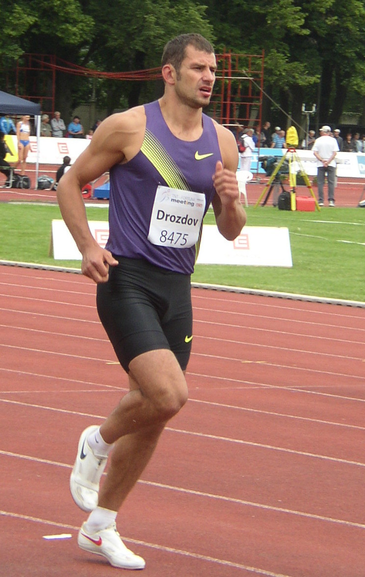 Athlete Aleksey Drozdov of Russia prepares for his attempt in long jump during men's decathlon at 4th edition of the TNT - Fortuna Meeting (IAAF World Combined Events Challenge Meeting, Sletiště Stadium, Kladno, Czech Republic, 15 June 2010, 13:25). Drozdov scored 8246 points and ranked second at this event.